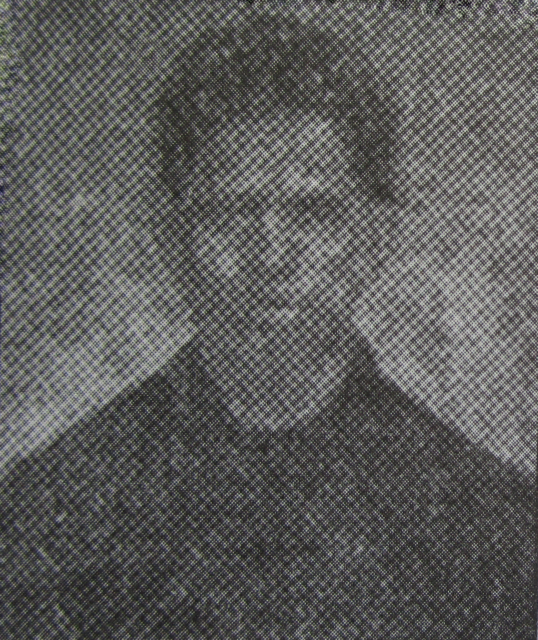 Monoranjan Sen